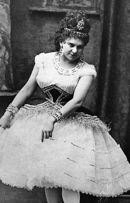 Josefina Gallmeyer in a Vienna production of Offenbach's La princesse de Trébizonde